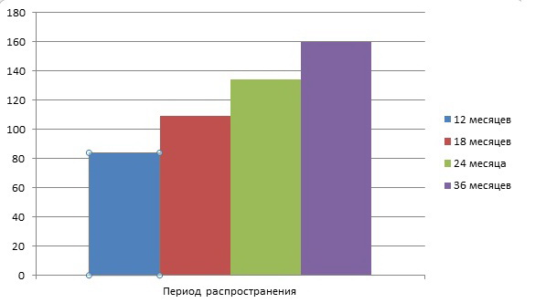 Diagram showing the period prevalence of obsessive-compulsive disorder